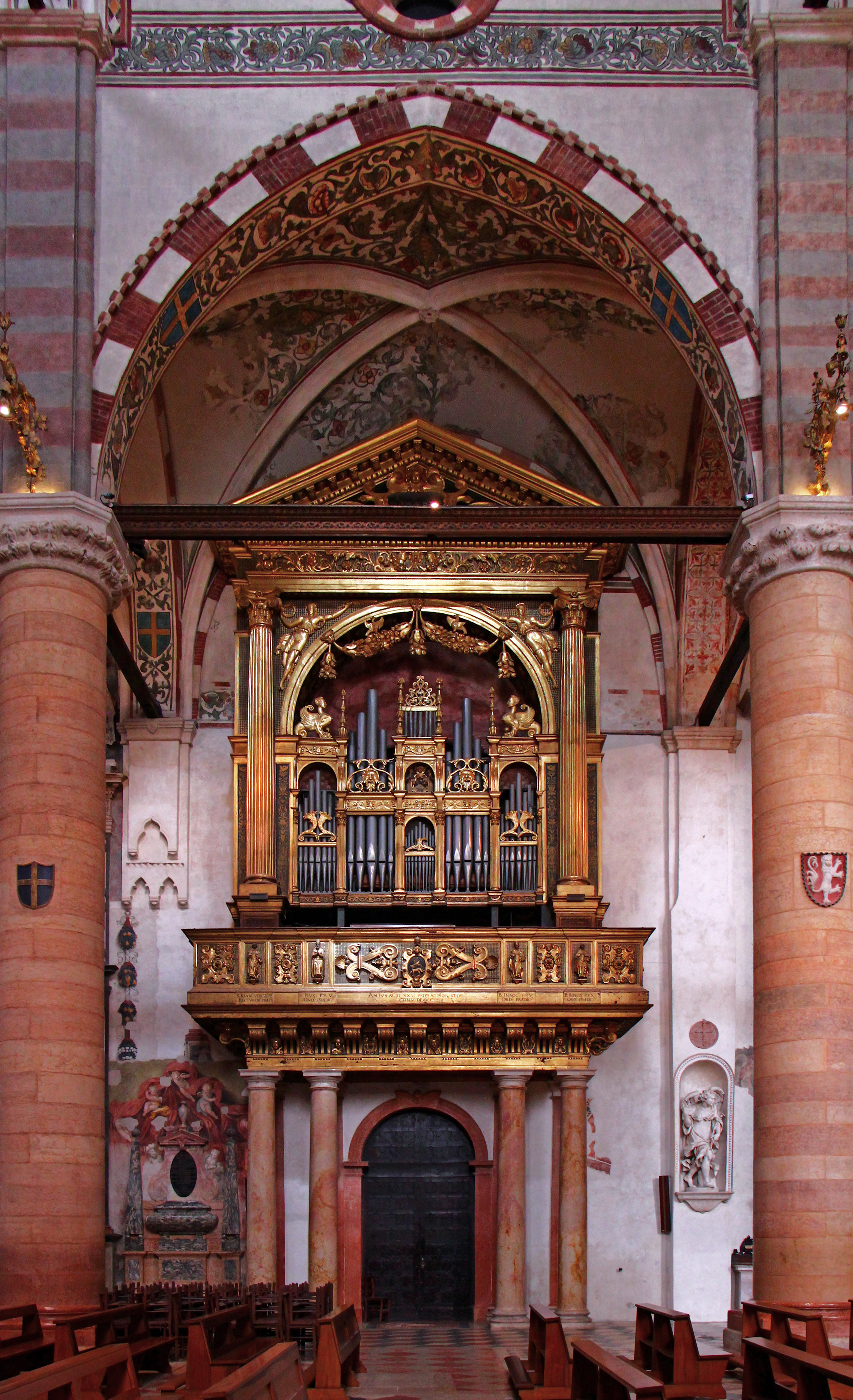 Organ of the Chiesa di Sant'Anastasia, Verona, Italy.